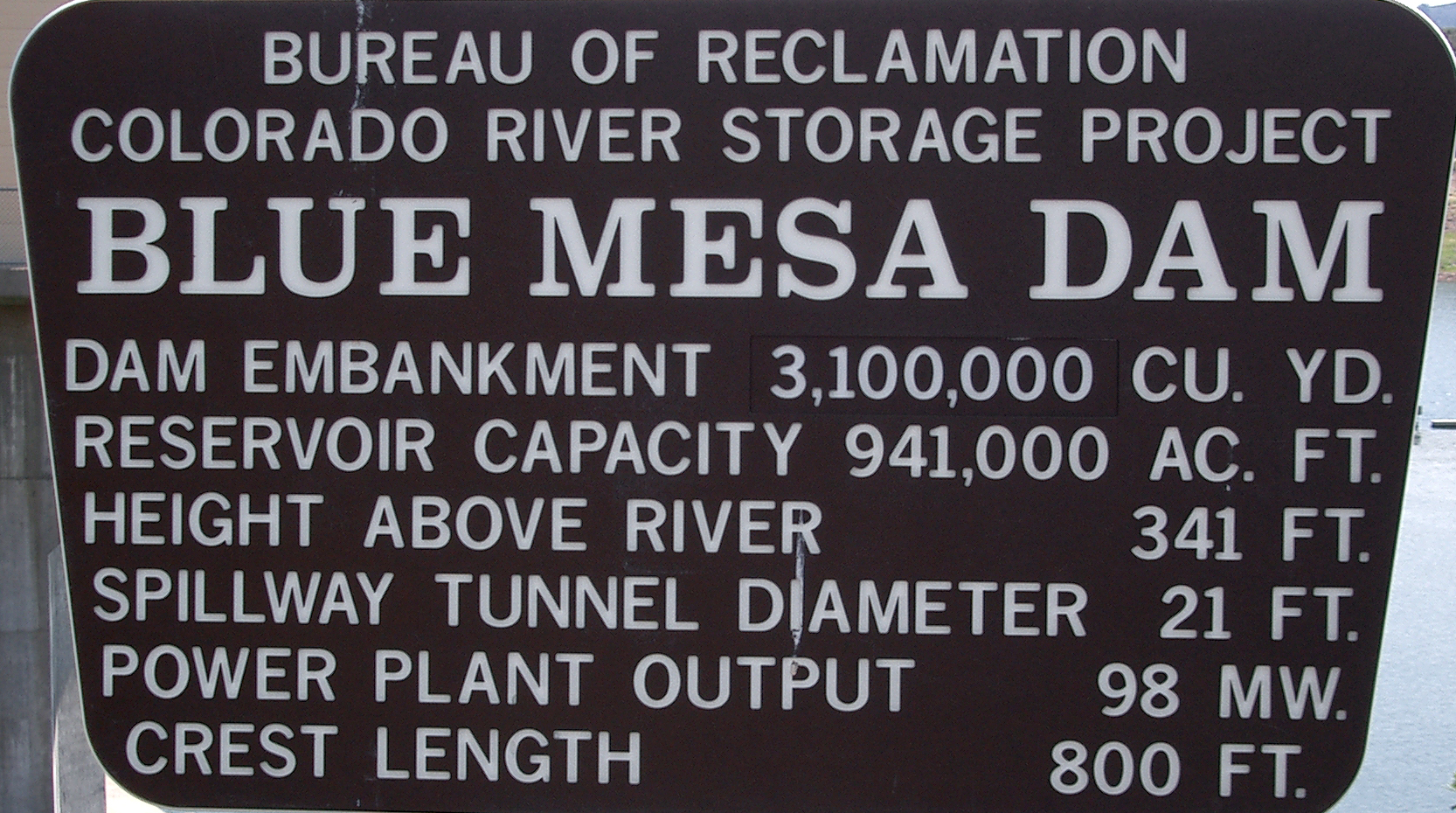 Blue Mesa Dam